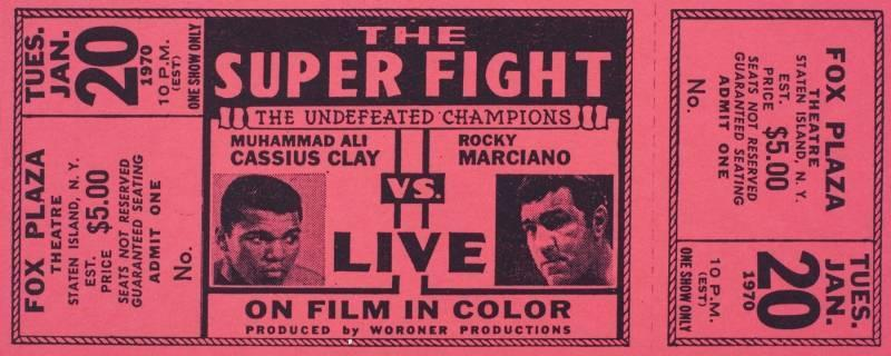 A cinema ticket for the fictional computer fight pitting Muhammad Ali against Rocky Marciano in 1969.